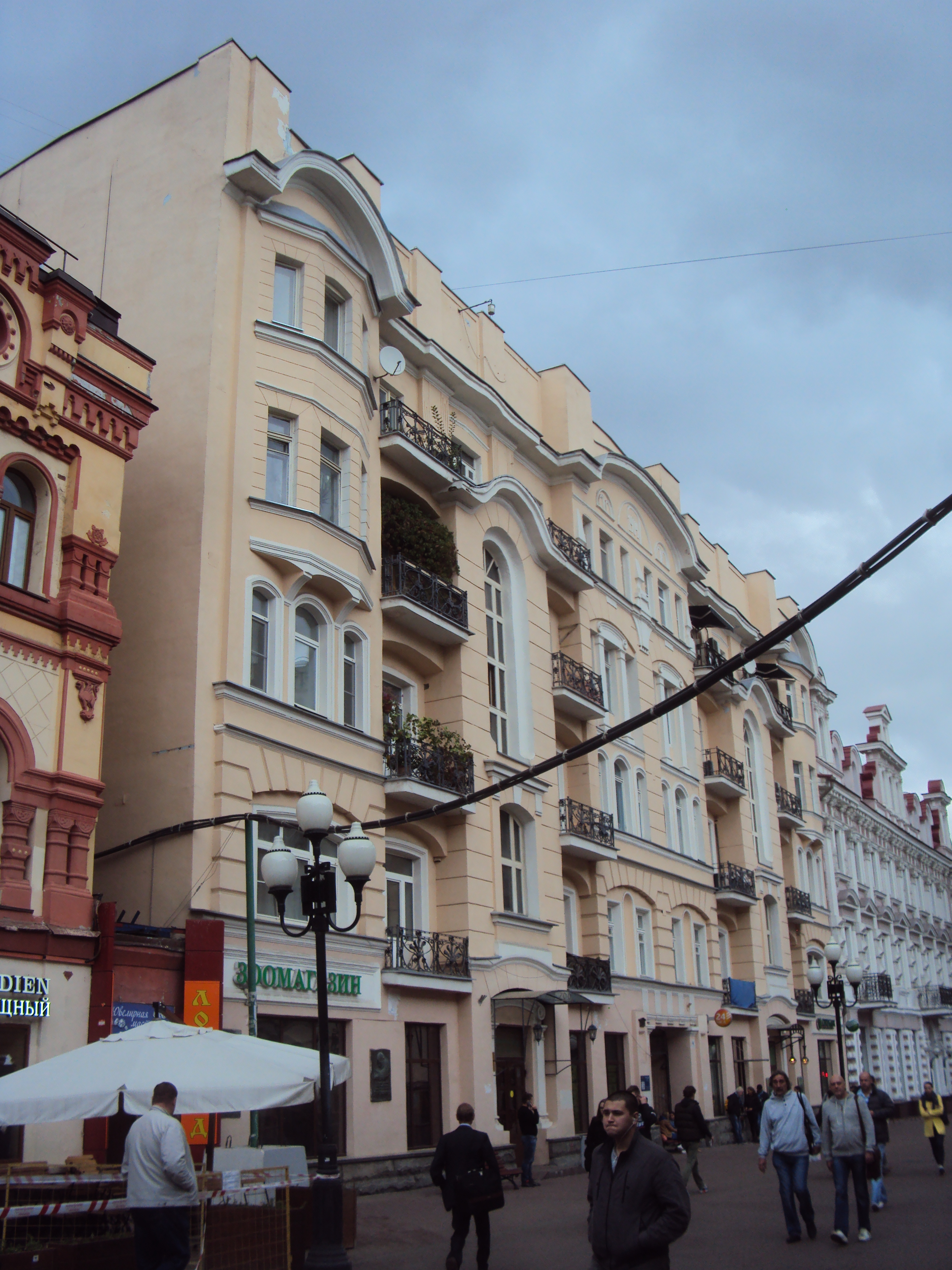 The house in which he lived and worked as artist S. V. Ivanov , Moscow